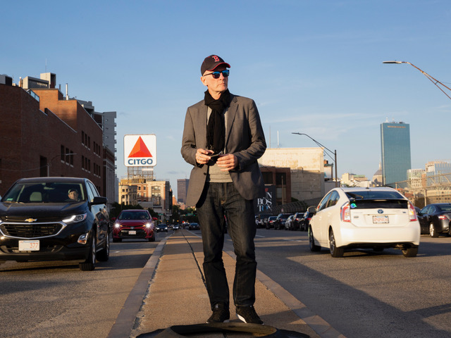 Fotograf Jurgen Ostarhild